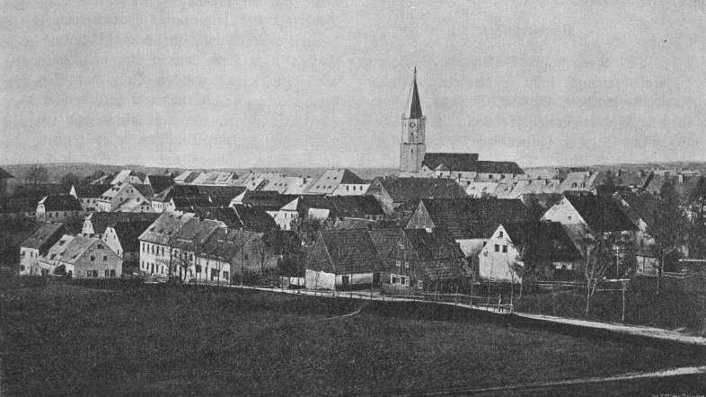 This image shows the small town Sayda in Saxony, Germany.